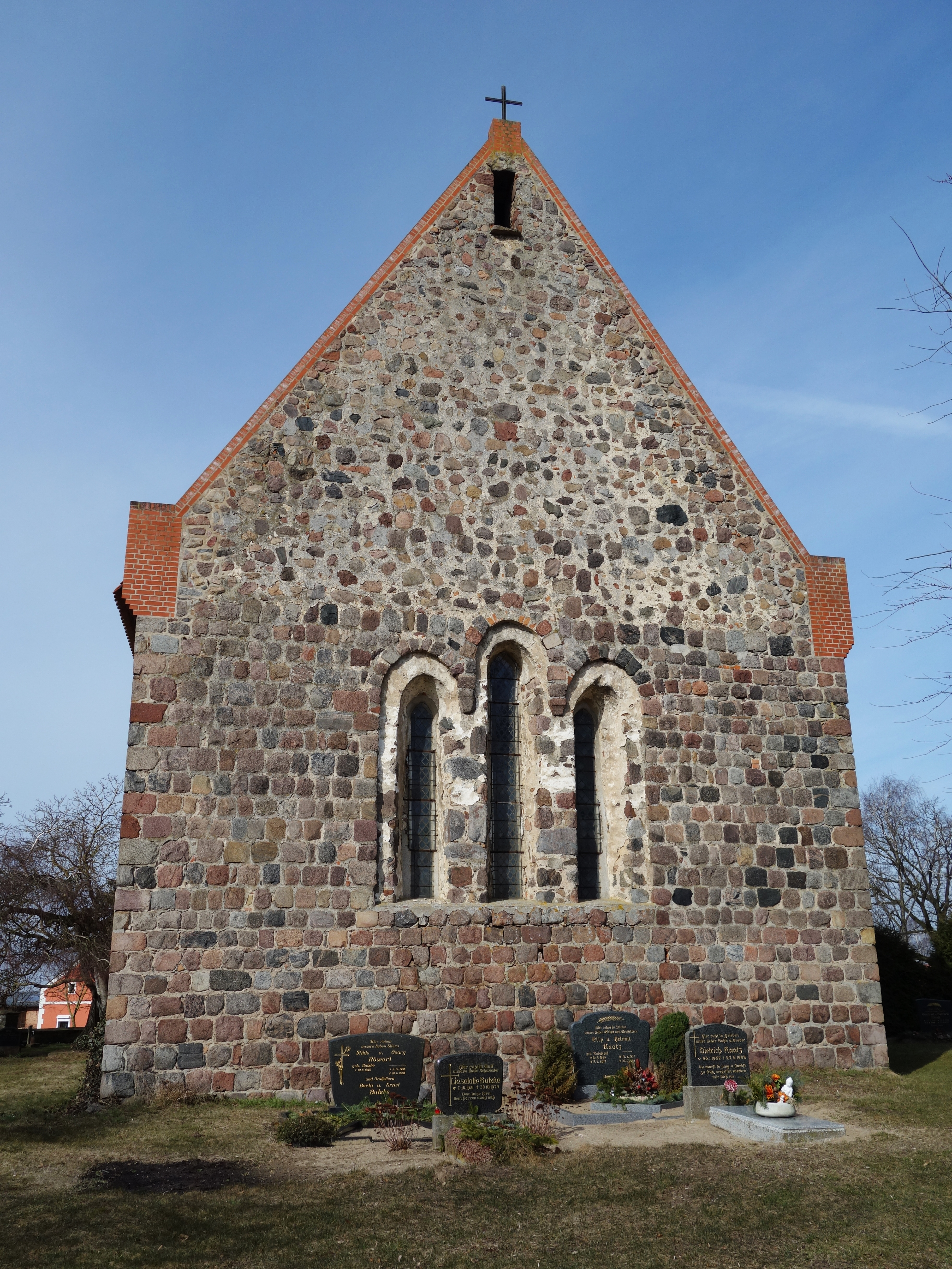 Eastern view of the church in Bertikow , Uckerfelde municipality , Uckermark district, Brandenburg state, Germany